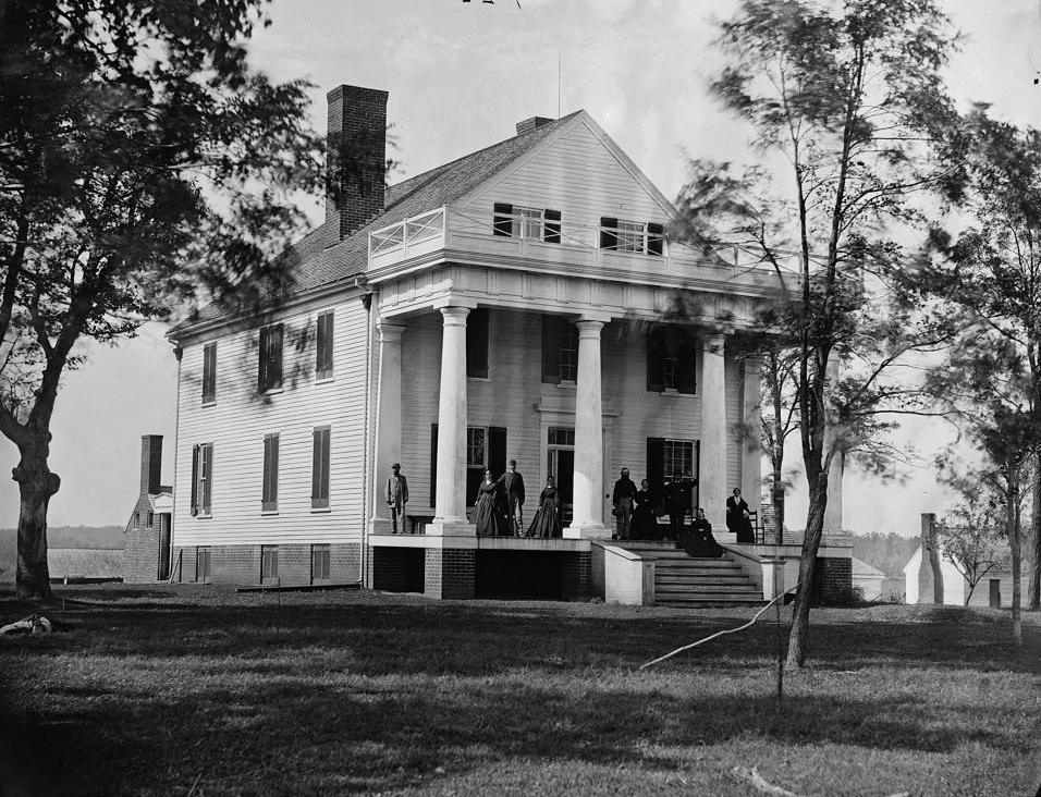 Culpeper, Virginia (vicinity). Residence of John Minor Botts. (Family on porch)